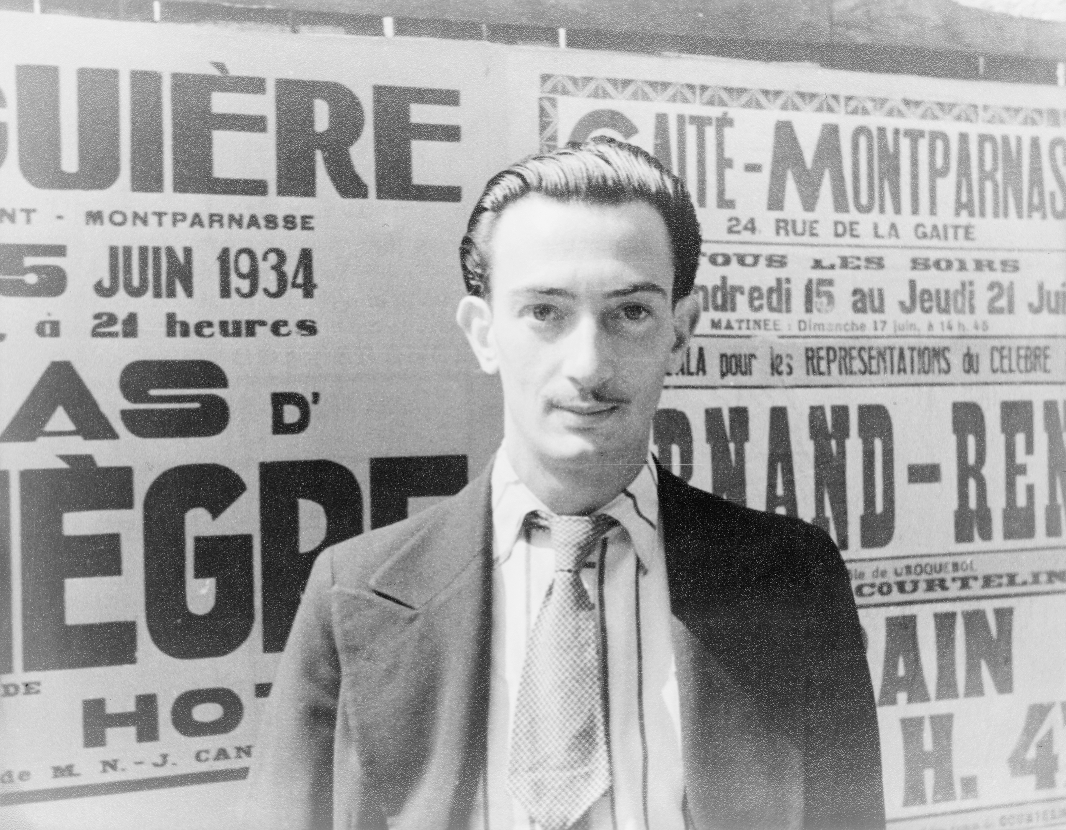 Portrait of Salvador Dalí, Paris Title derived from information on verso of photographic print. Van Vechten number: XXXV F 4. Gift; Carl Van Vechten Estate; 1966. Forms part of: Portrait photographs of celebrities, a LOT which in turn forms part of the Carl Van Vechten photograph collection (Library of Congress). Medium 1 photographic print : gelatin silver. Call Number LOT 12735, no. 276 REPRODUCTION NUMBER LC-USZ62-133965 DLC (b&w film copy neg.)